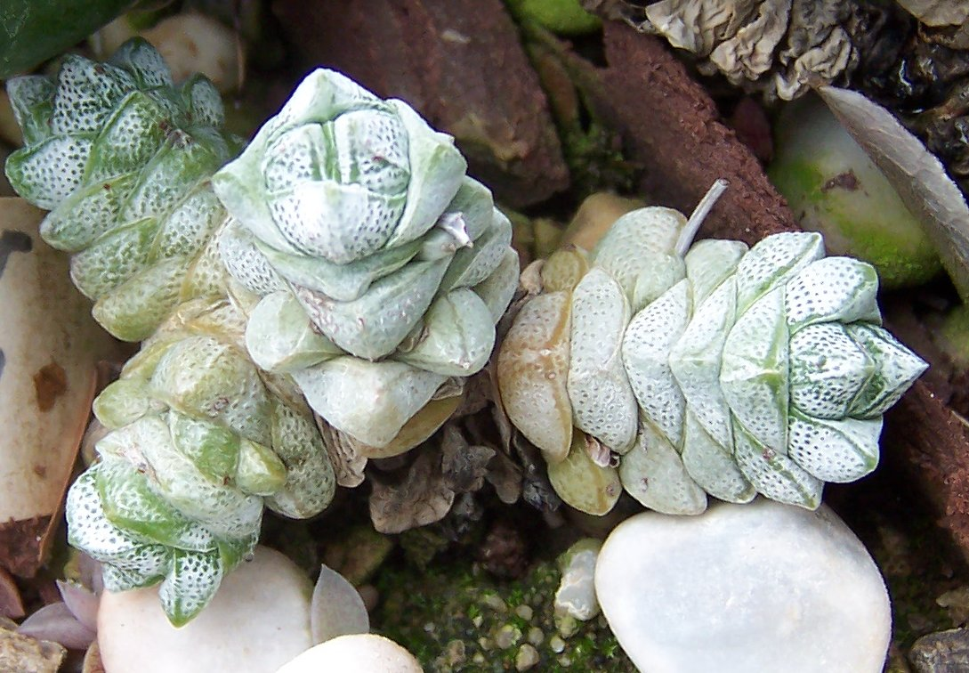 ?Crassula tecta (= Crassula deceptor), habitus Identification not entirely clear. This seems to be the actual C. tecta, but this "C. deceptor" is much like the plant here. See also the supposed File:Crassula elegans 1.jpg, which is almost certainly not that species. Dysmorodrepanis (talk) 22:48, 3 May 2011 (UTC)